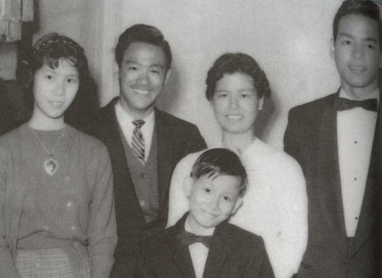 Bruce lee and his family,when he was a child.